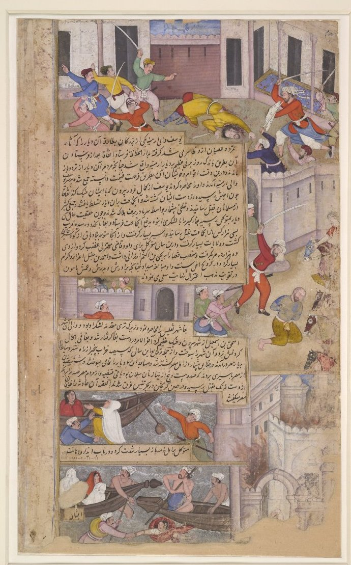 Recto: Illustration from the dispersed Ta'rikh-i Alfi manuscript depicting the historical destruction of the Tomb of Husain at Kerbela on the orders of Caliph al-Mutawakkil. The event, depicted in layers, portrays a violent massacre following the initial destruction. The illustration is interupted by large segments of text on the left. Painted in gouache on paper.